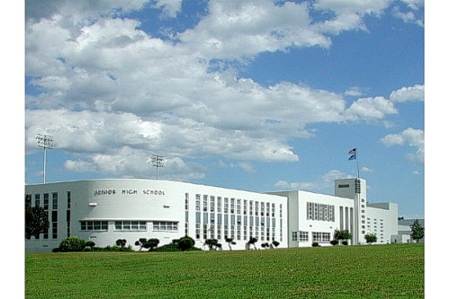 Snapshot of Bartlesville High School, 1700 Hillcrest Dr, Bartlesville, OK 74003